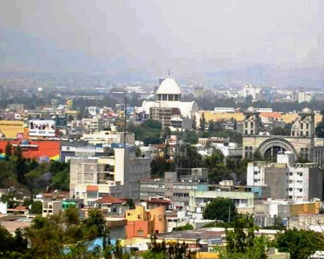 Saint Cajetan Church, Gustavo A. Madero, Federal District, Mexico : View of Lindavista